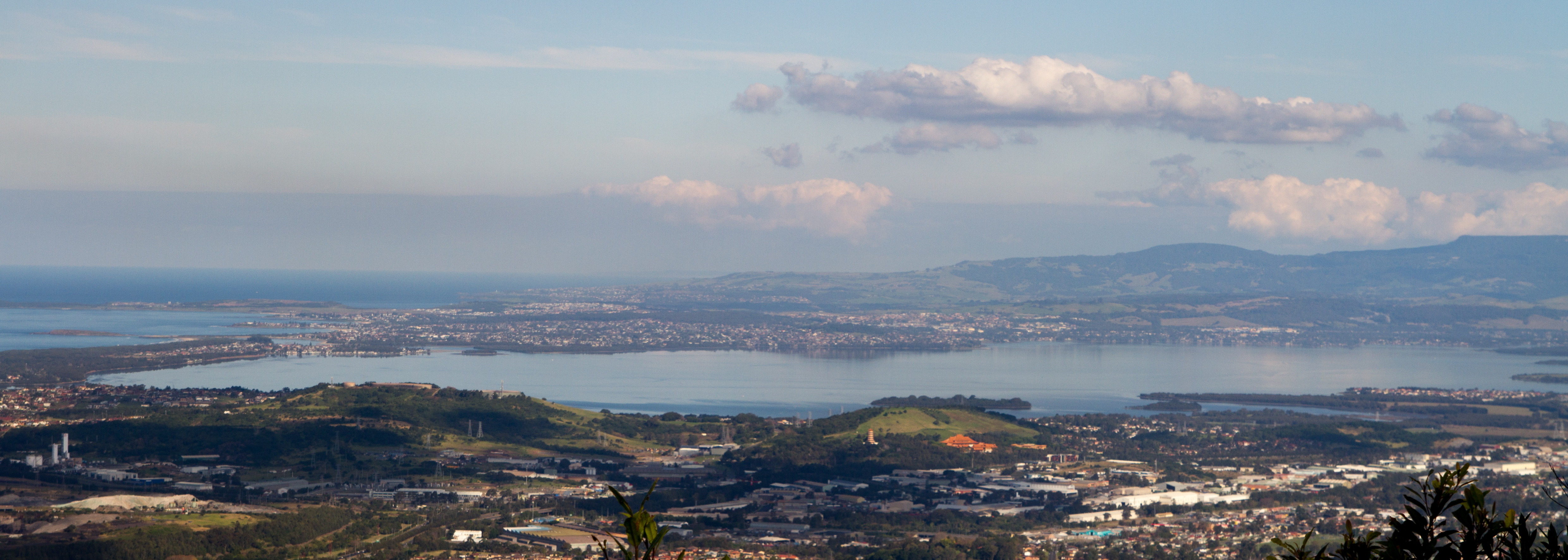 Lake Illawarra. View from Sublime Point lookout